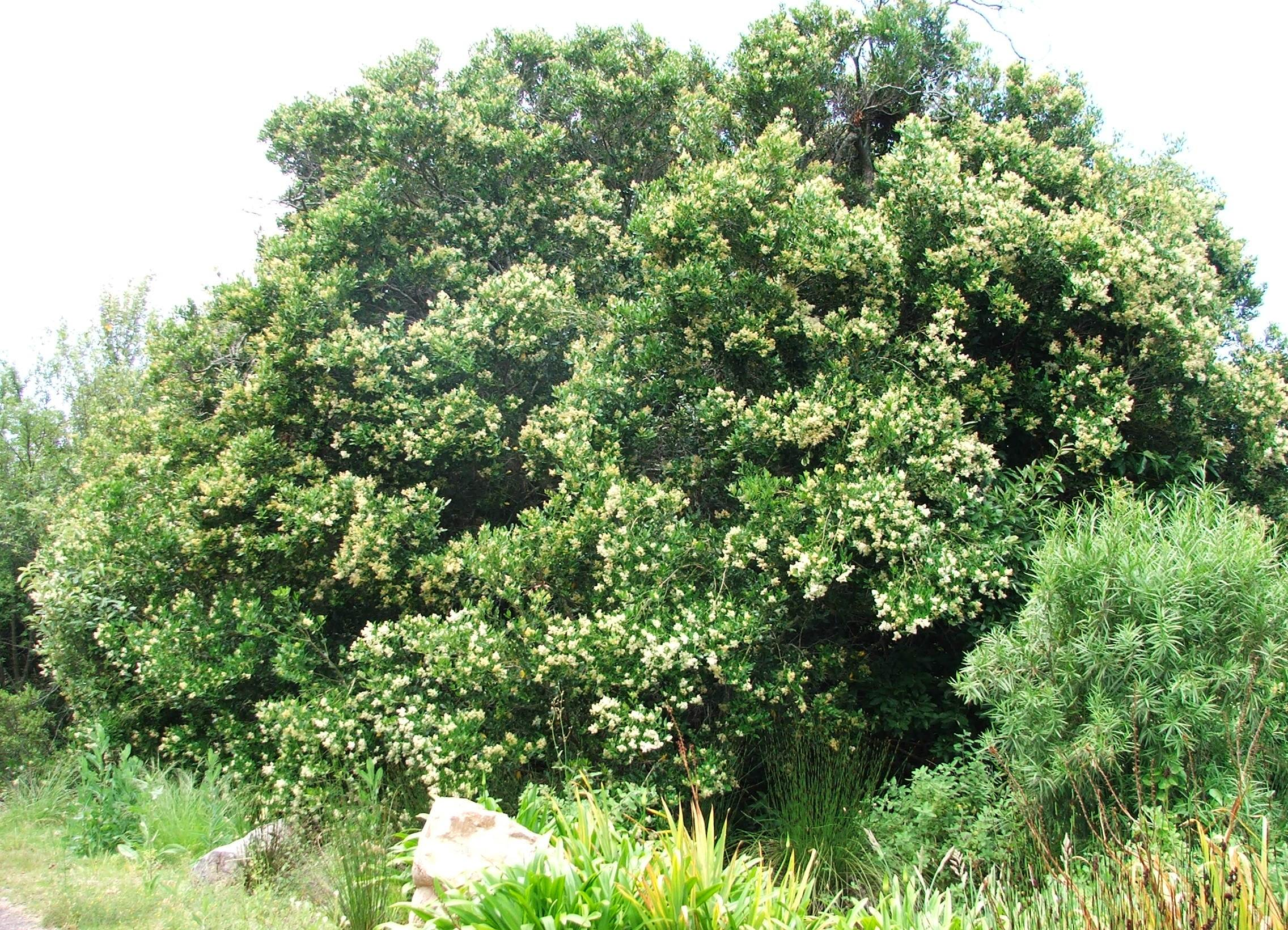 Olea capensis tree in flower in Cape Town. Afromontane forest.